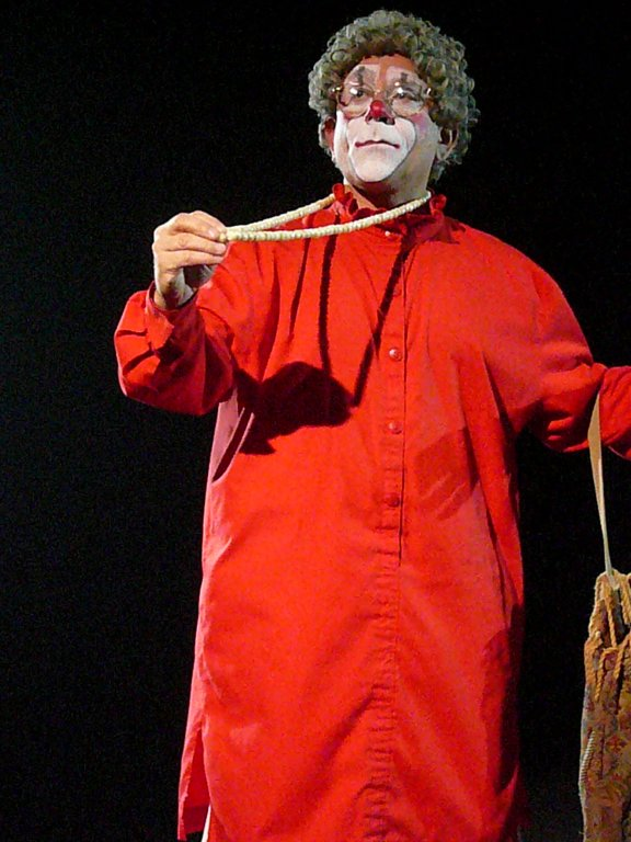 Barry Lubin, performing as Grandma the Clown.